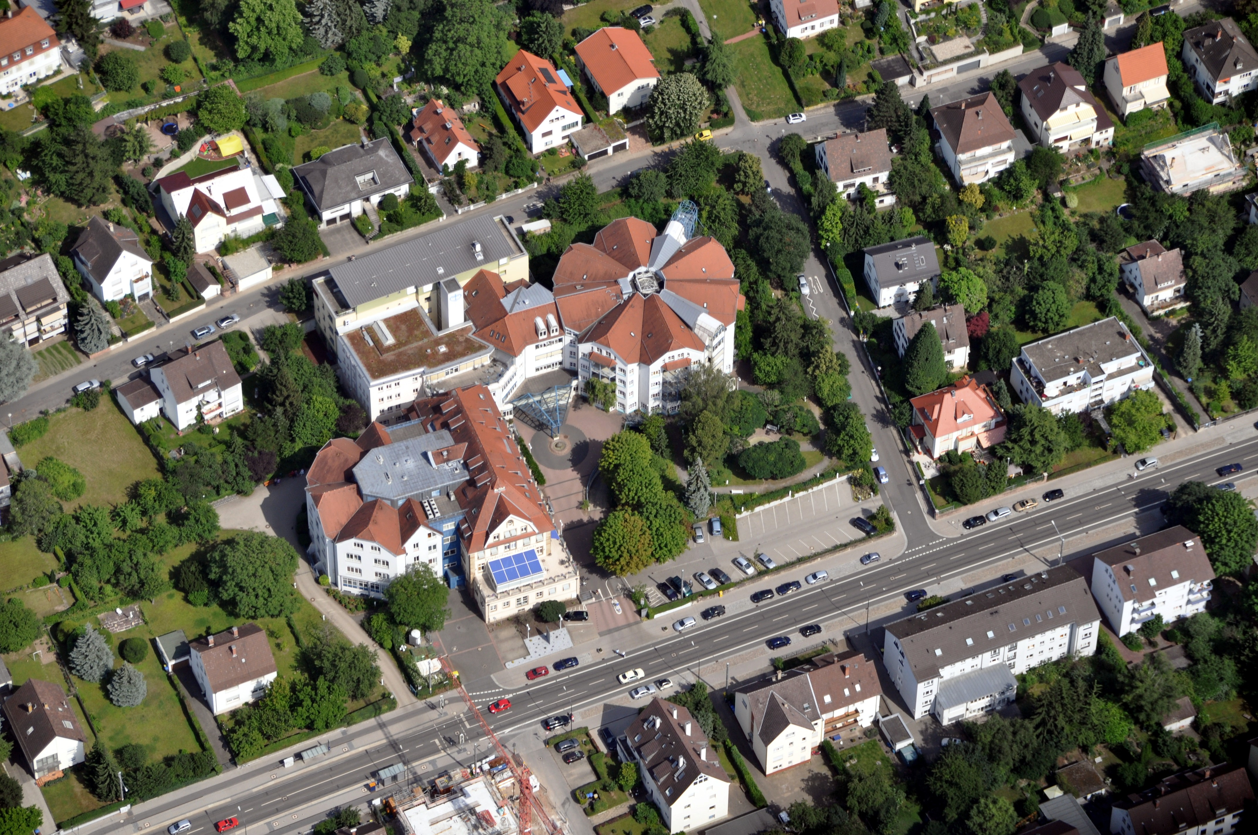 Apalesion Bethanien Hospital Heidelberg